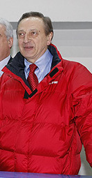 Aleksandr Gorshkov, Russian figure skater